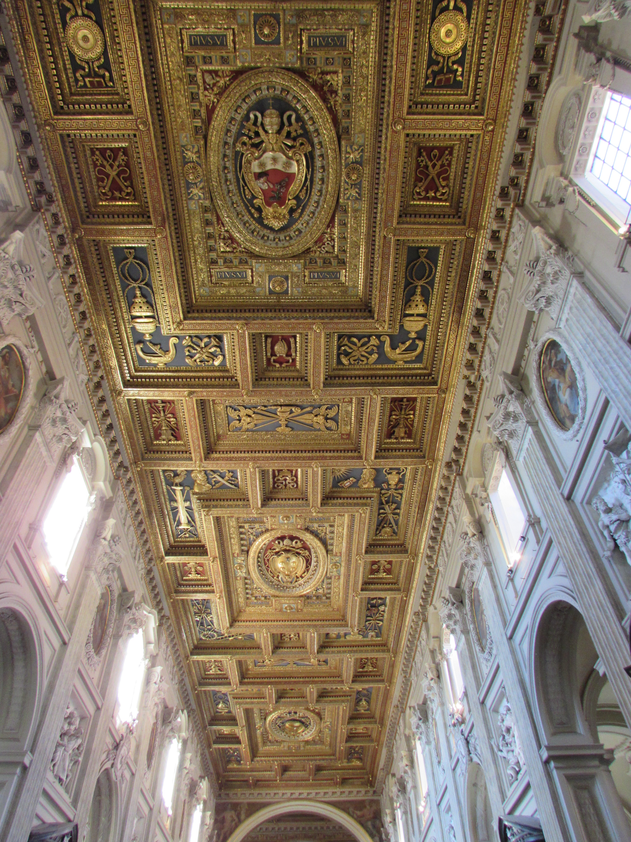 San Laterano Basilic ceiling picture